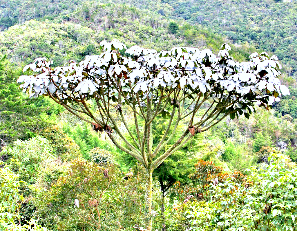 Arboles nativos en medio una variedad muy hermosa.